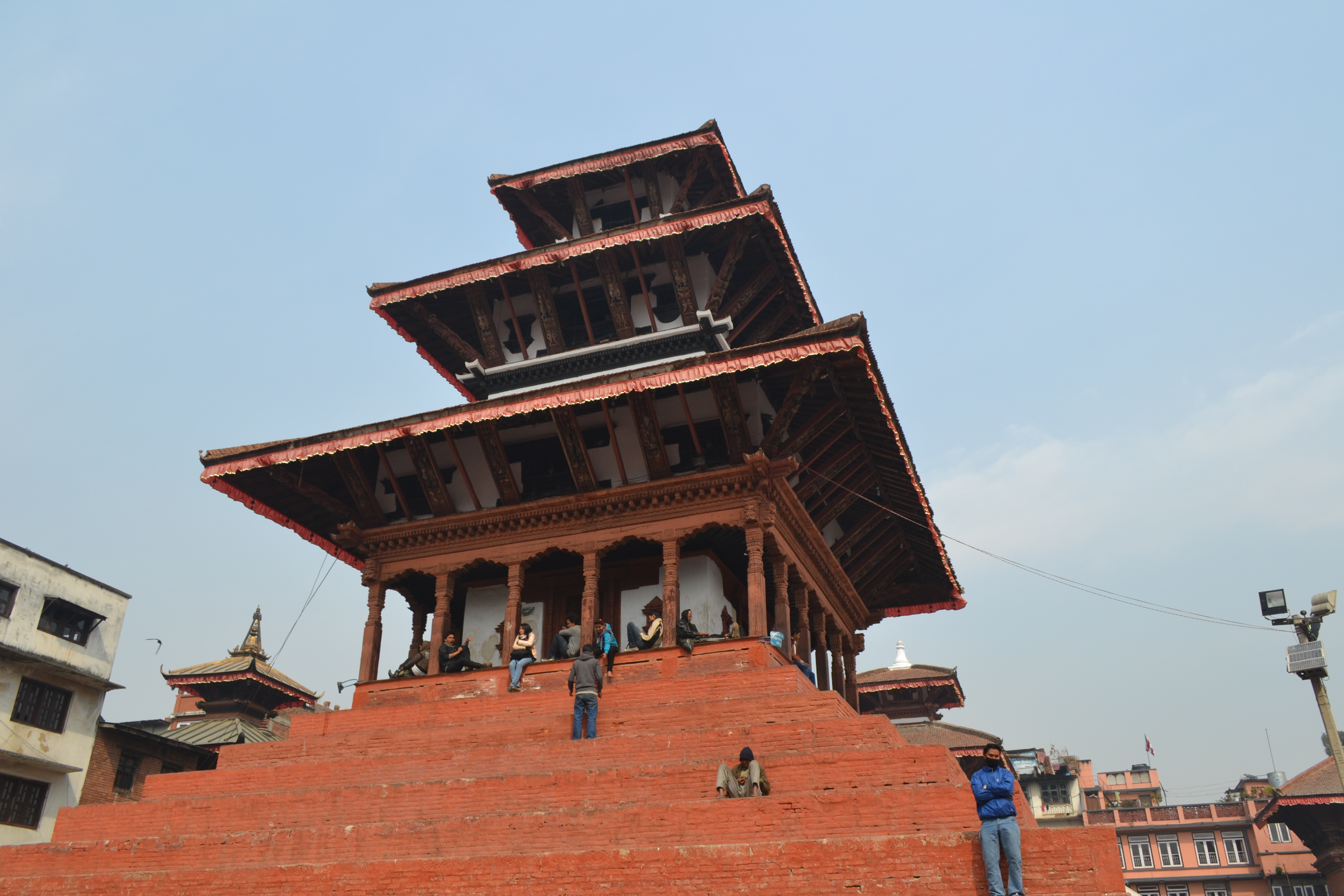 One temple on Durban Square in Kathmandu